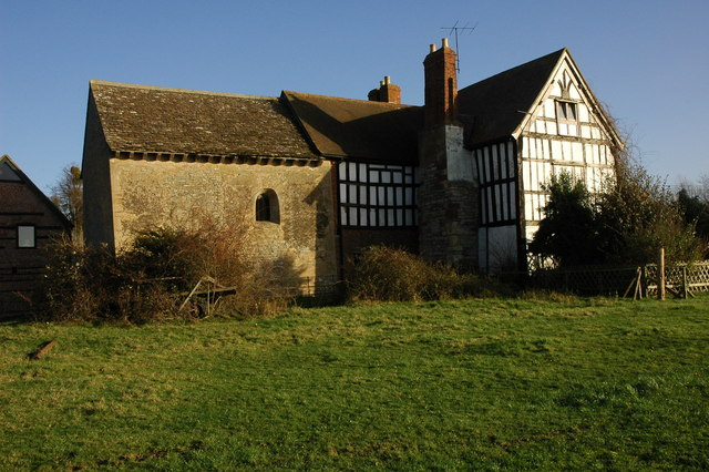 Odda's Chapel (left) and Abbot's Court (right), Deerhurst, Gloucestershire, seen from the southwest